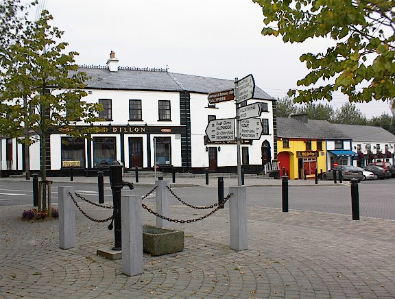 Rathangan town centre. Photo taken by John Fitzsimons